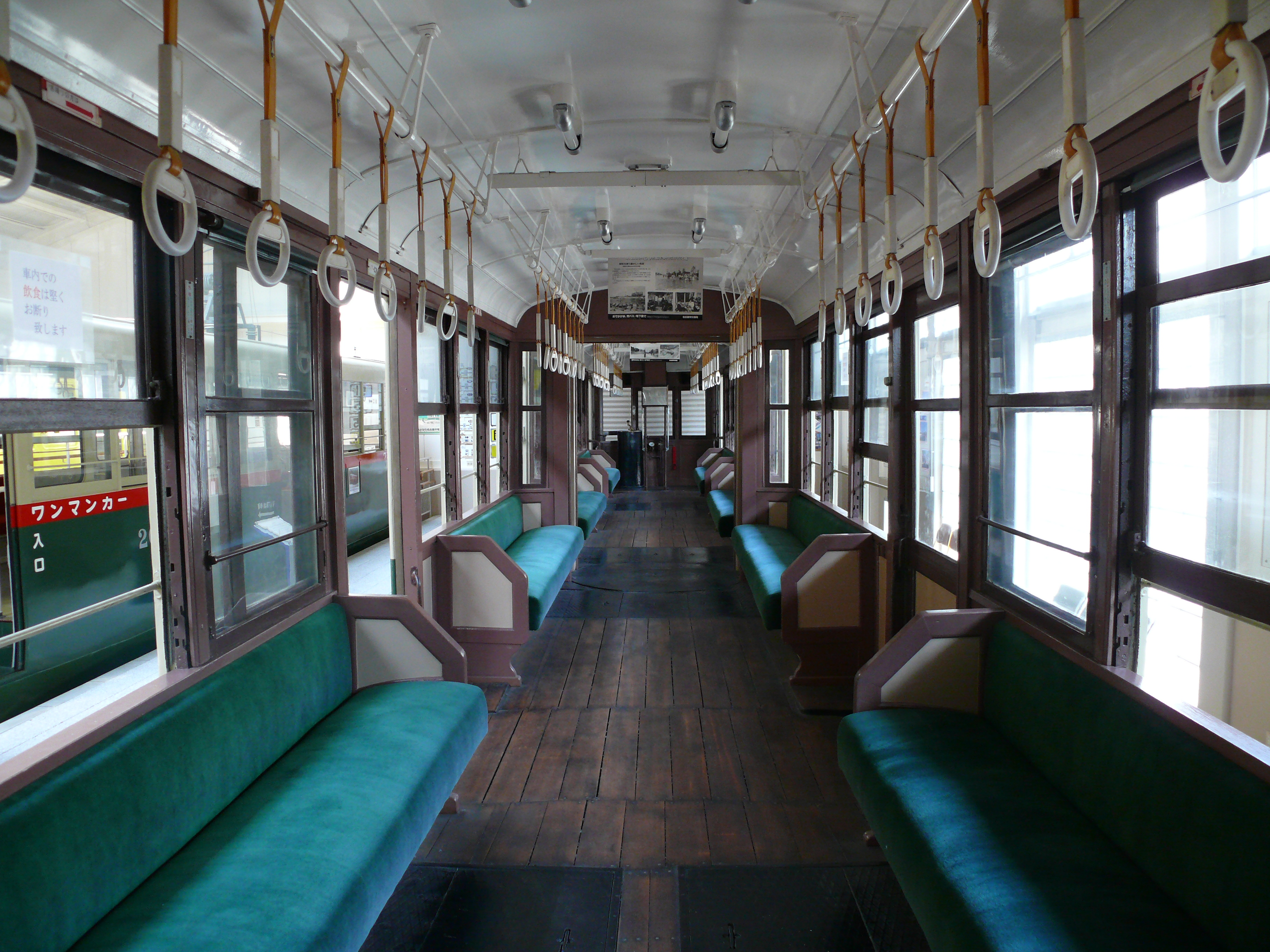 Nagoya City Tram & Subway Museum.